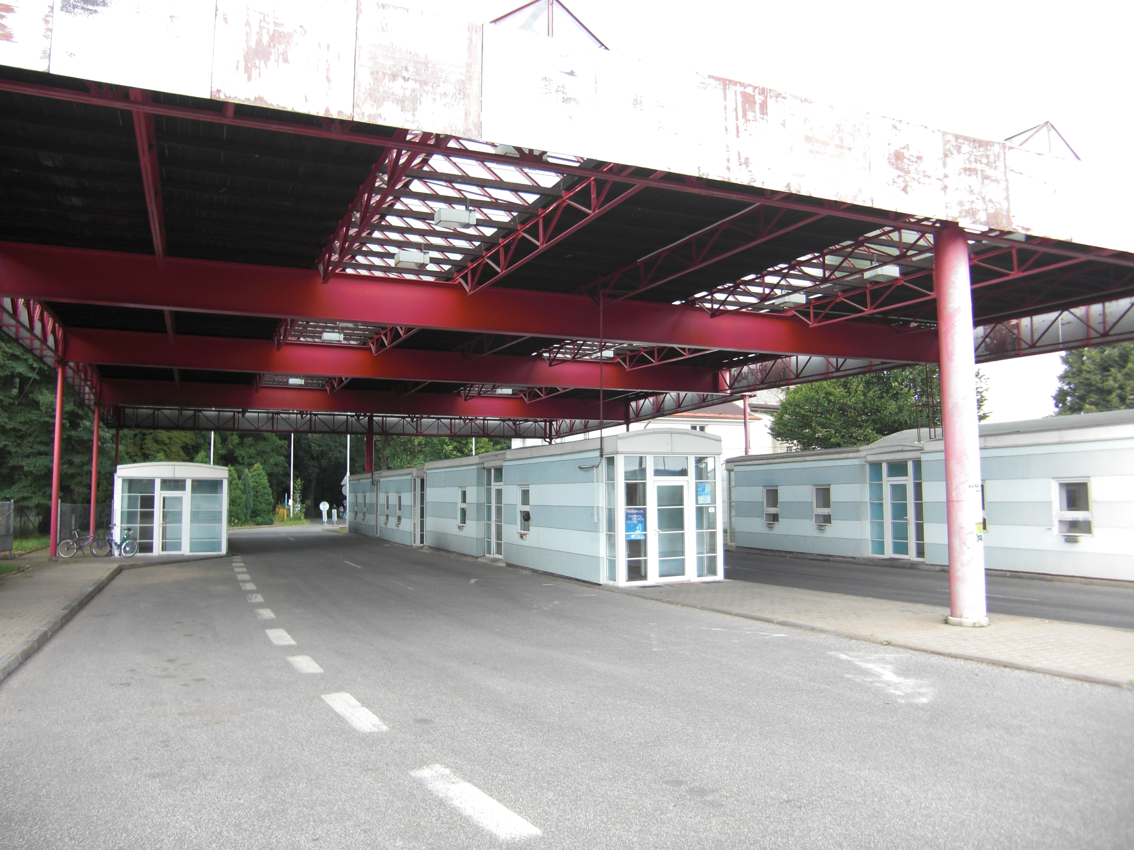 Border